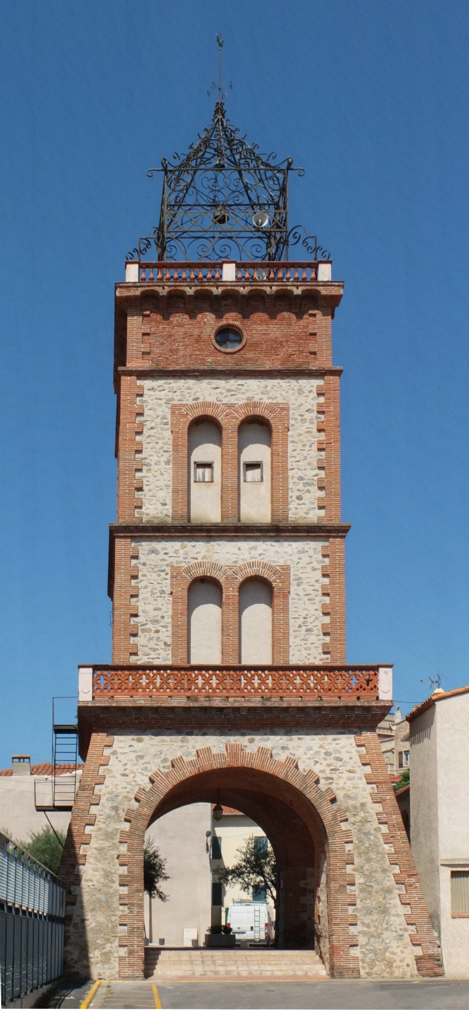 Ortaffa, France, La Tour Eiffel, bell tower (1898-1900)